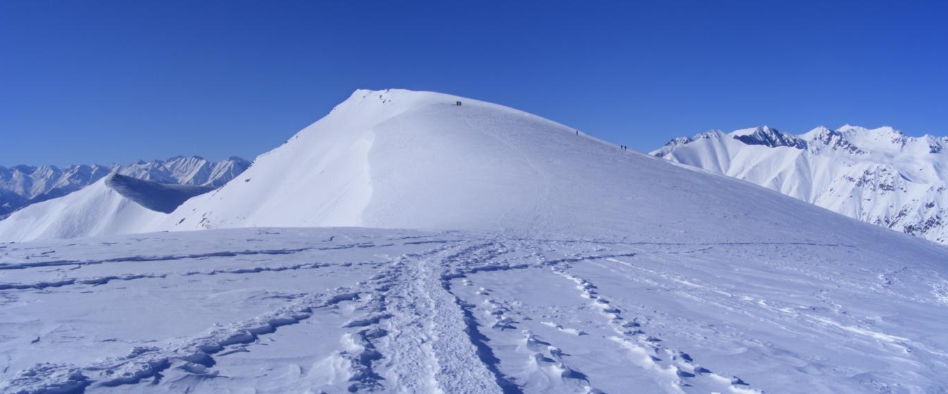 Mount Punta dell'Aquila (Piedmont, Italy)